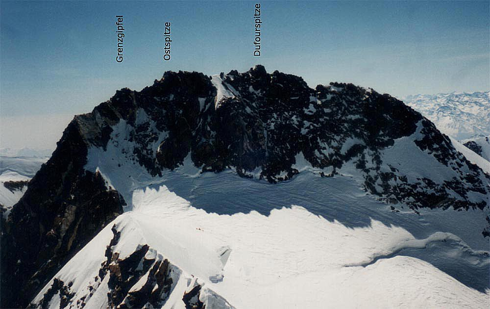 Dufourspitze (Monte Rosa, 4634m) as seen from Nordend (4609m); swiss-italien border, alps; with legend (see Image:DufourspitzeFromNordend.jpg for identical picture without legend)